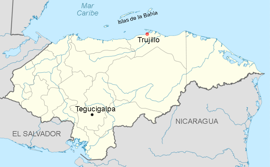 Location map of Trujillo in Honduras.